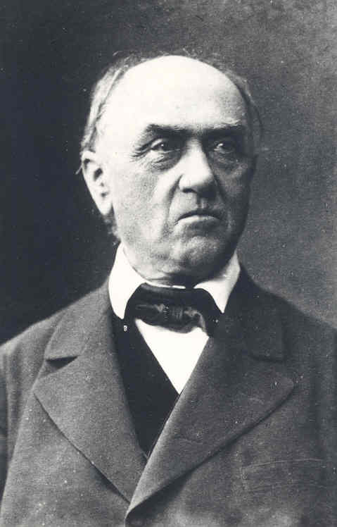 Benedikt Martignoni, Member of the Landtag of Vorarlberg (1867–1870).